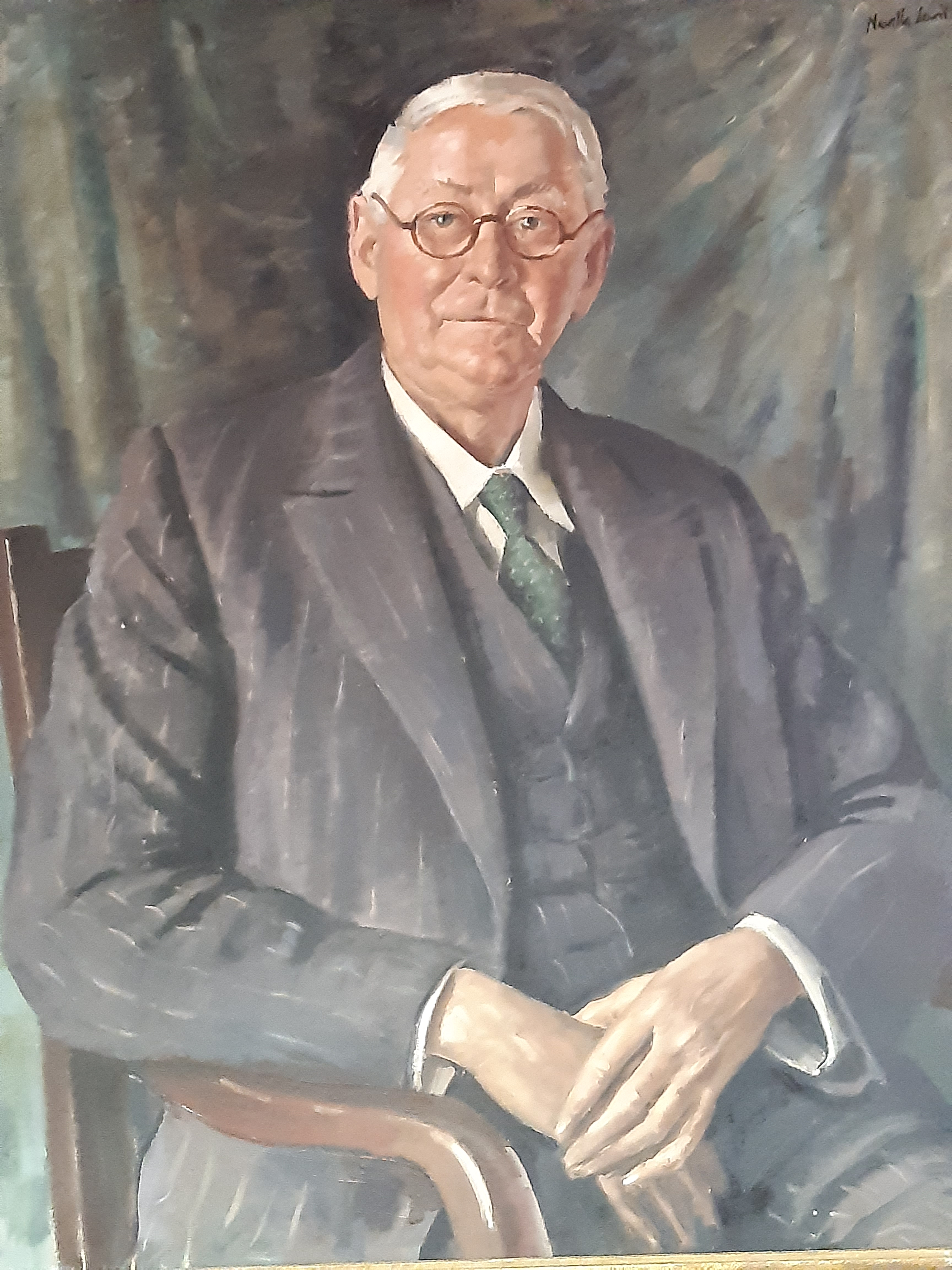 This is a painting of WC Winshaw , publically accessible in Stellenbosch